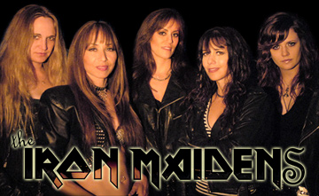 The Iron Maidens 2007-2008 lineup. (From left) Sara Marsh, Aja Kim, Linda McDonald, Wanda Ortiz, Heather Baker. Photography by Robert John. Copyright 2011 DRZ Entertainment Group, Inc. and The Iron Maidens Image uploaded with permission from DRZ Entertainment Group, Inc. I just reuploaded The Iron Maidens.jpg here on 7/18/13 as copyright owner I give permission DRZ Group Mark Dawson